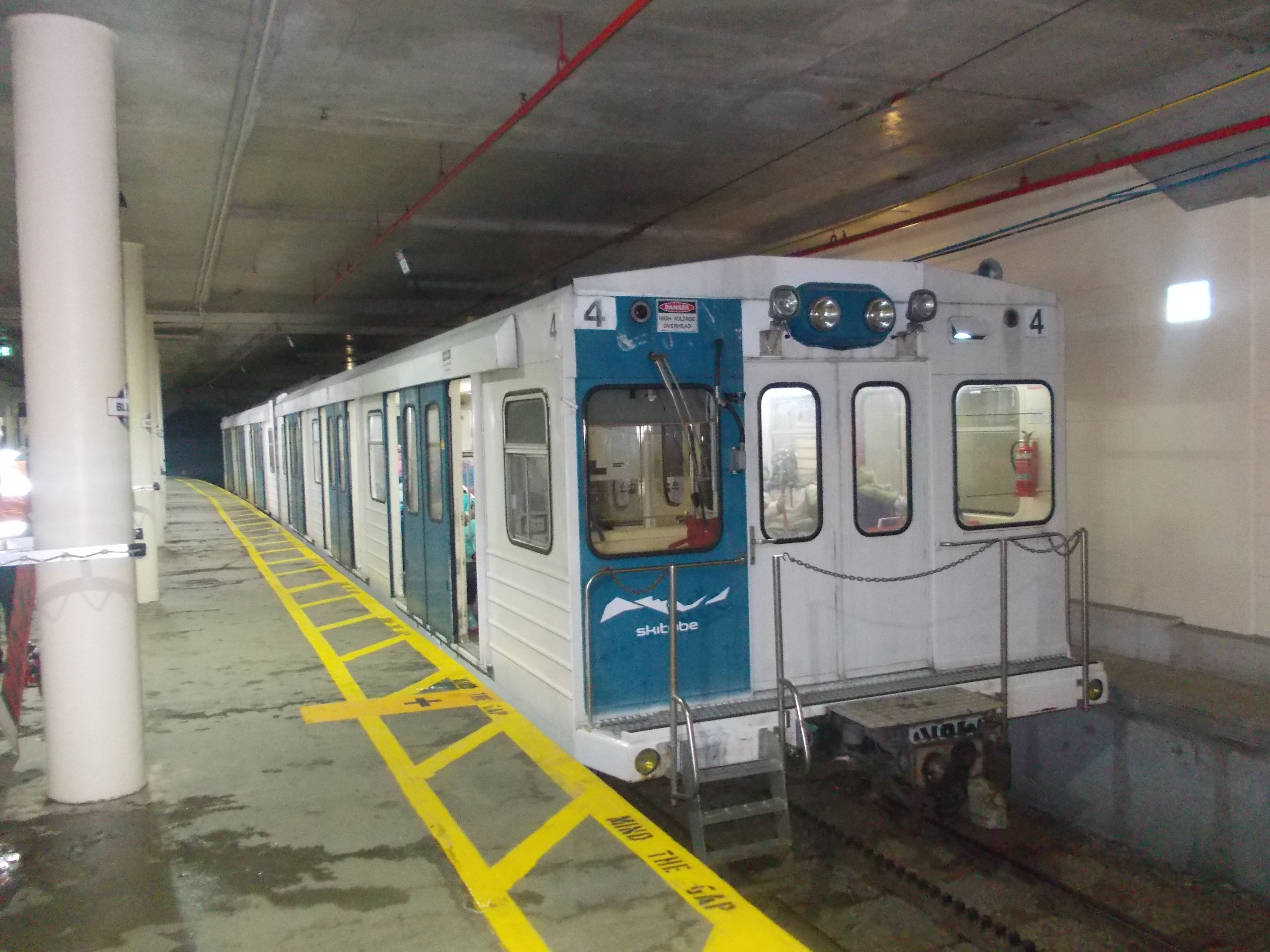 Ski Tube at the Blue Cow Mountain Train Station July 2014